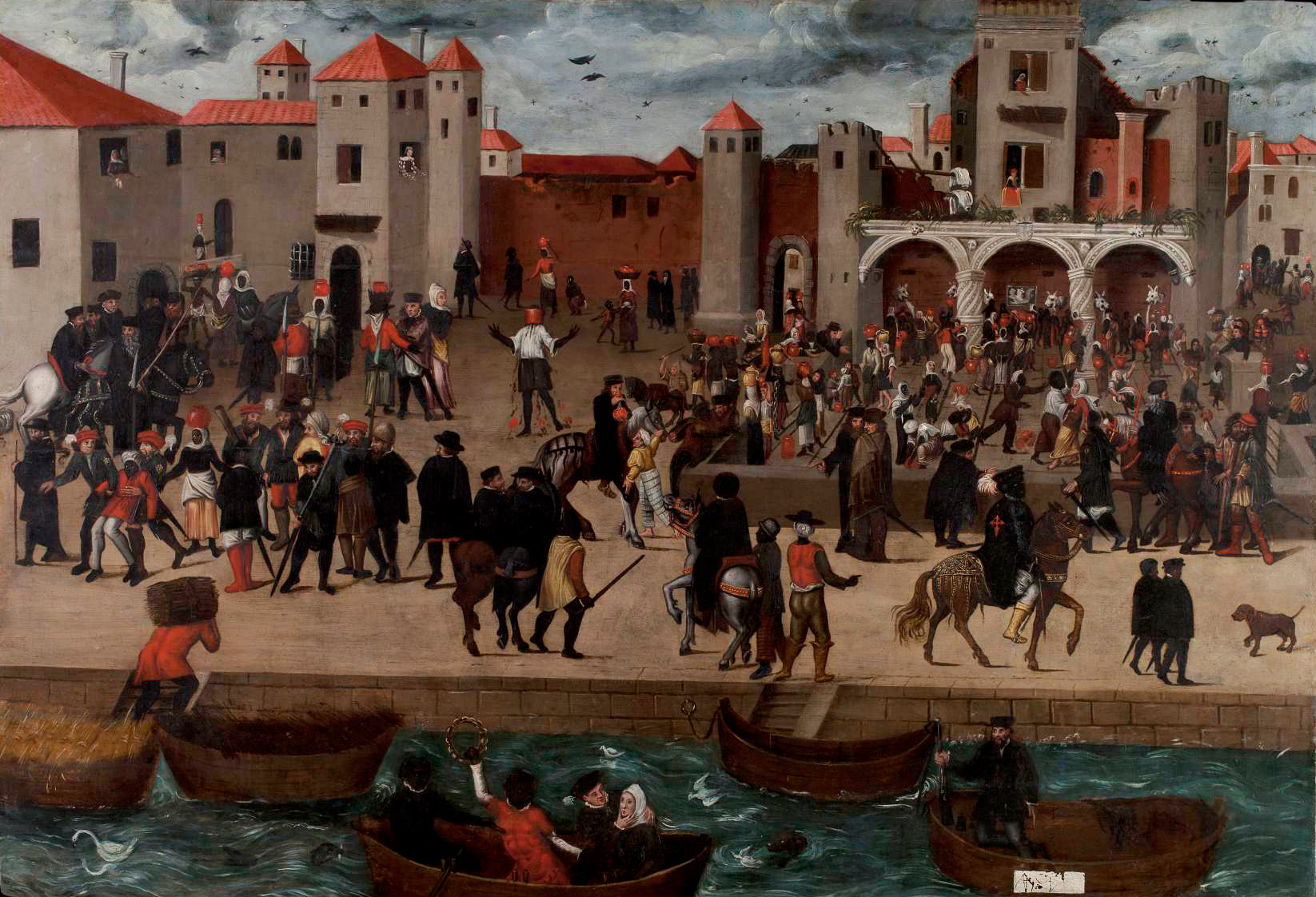 The Chafariz d'El-Rey (King's Fountain) in the Alfama District, Lisbon. Netherlandish, ca. 1570-80.